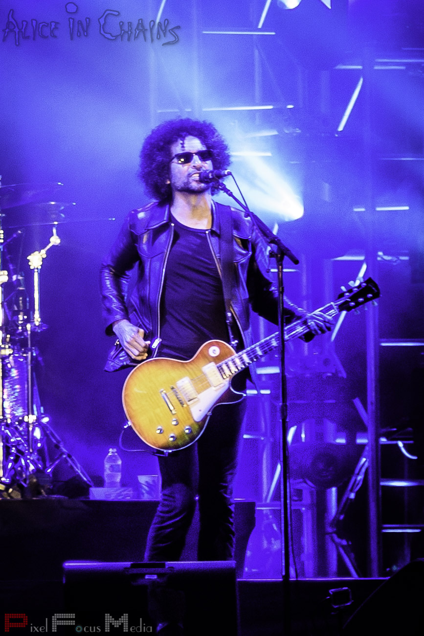 William DuVall live at 2016